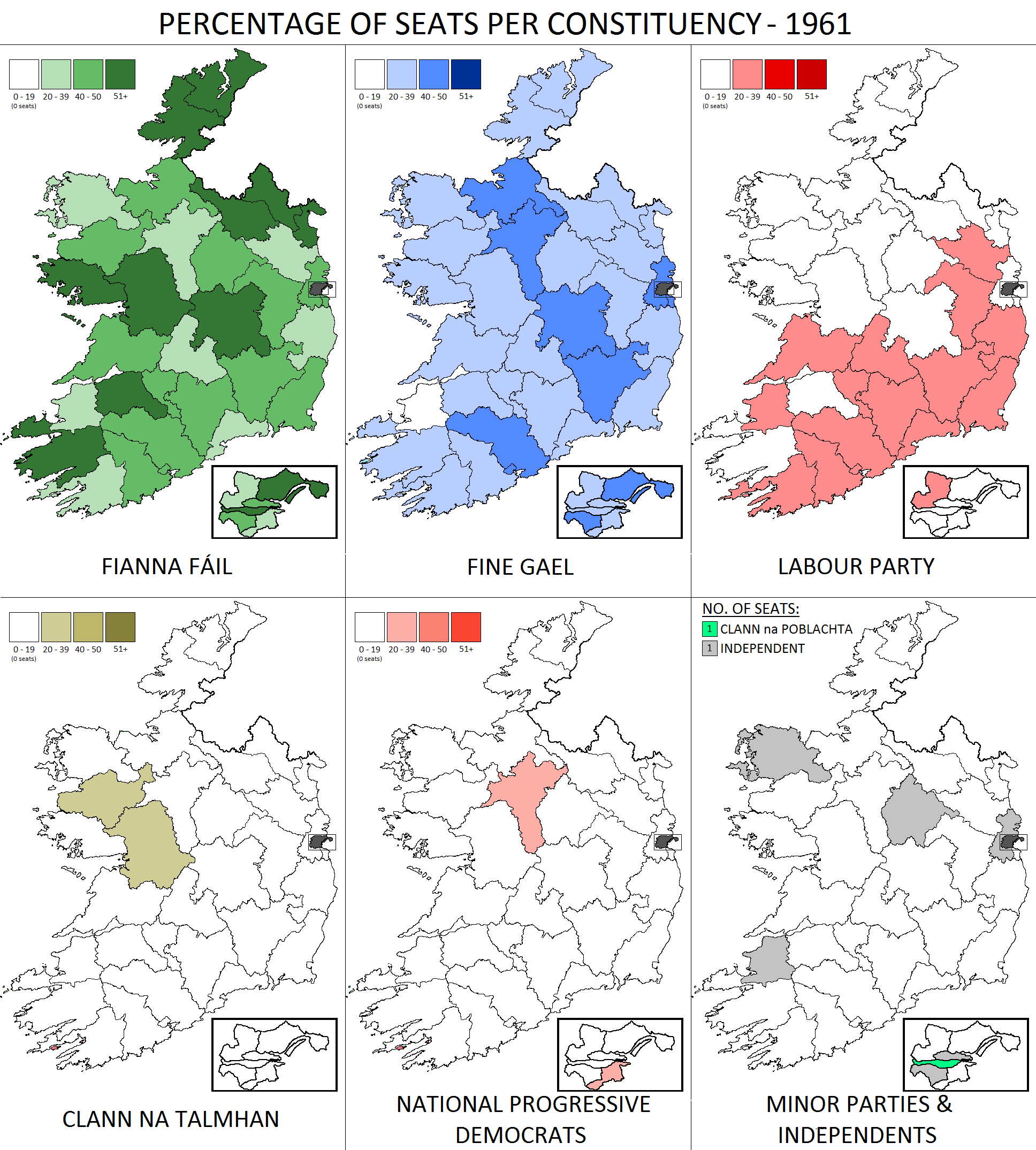 Graphical representation of the 1961 Irish general election results. Created by myself using data from Wikipedia and literary sources.